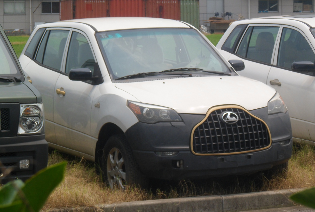 Changfeng Liebao CS7 photographed in Shanghai, China.